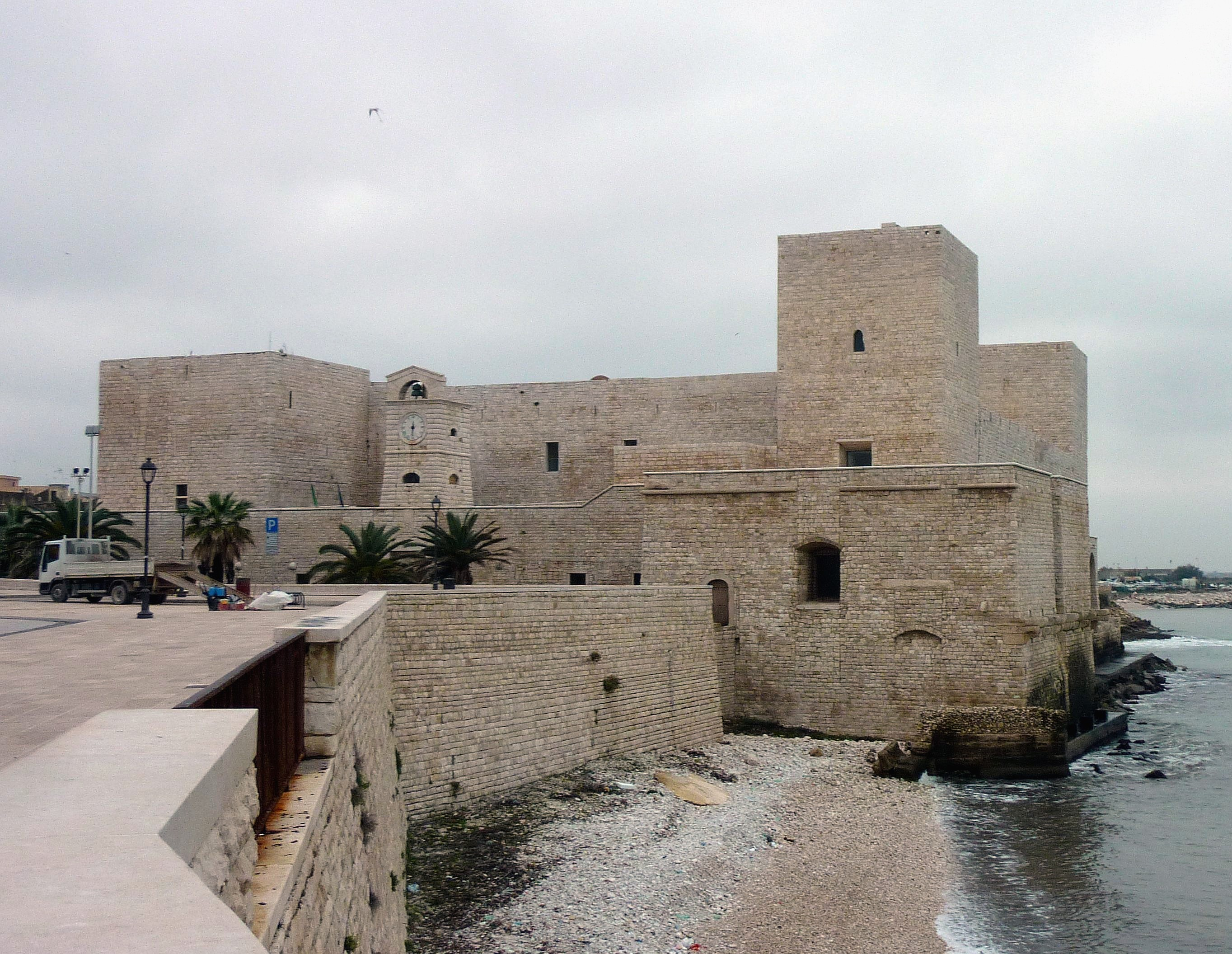 Trani's 13th-century fort (Castello Svevo)